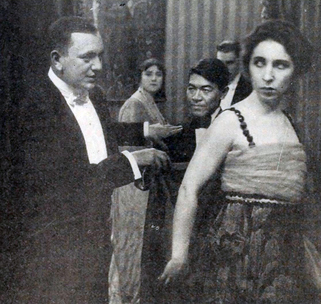 Illustration of a review in The Moving Picture World for the film The Shop Girl (1916).